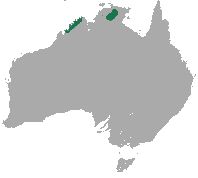 Nabarlek (Petrogale concinna) range